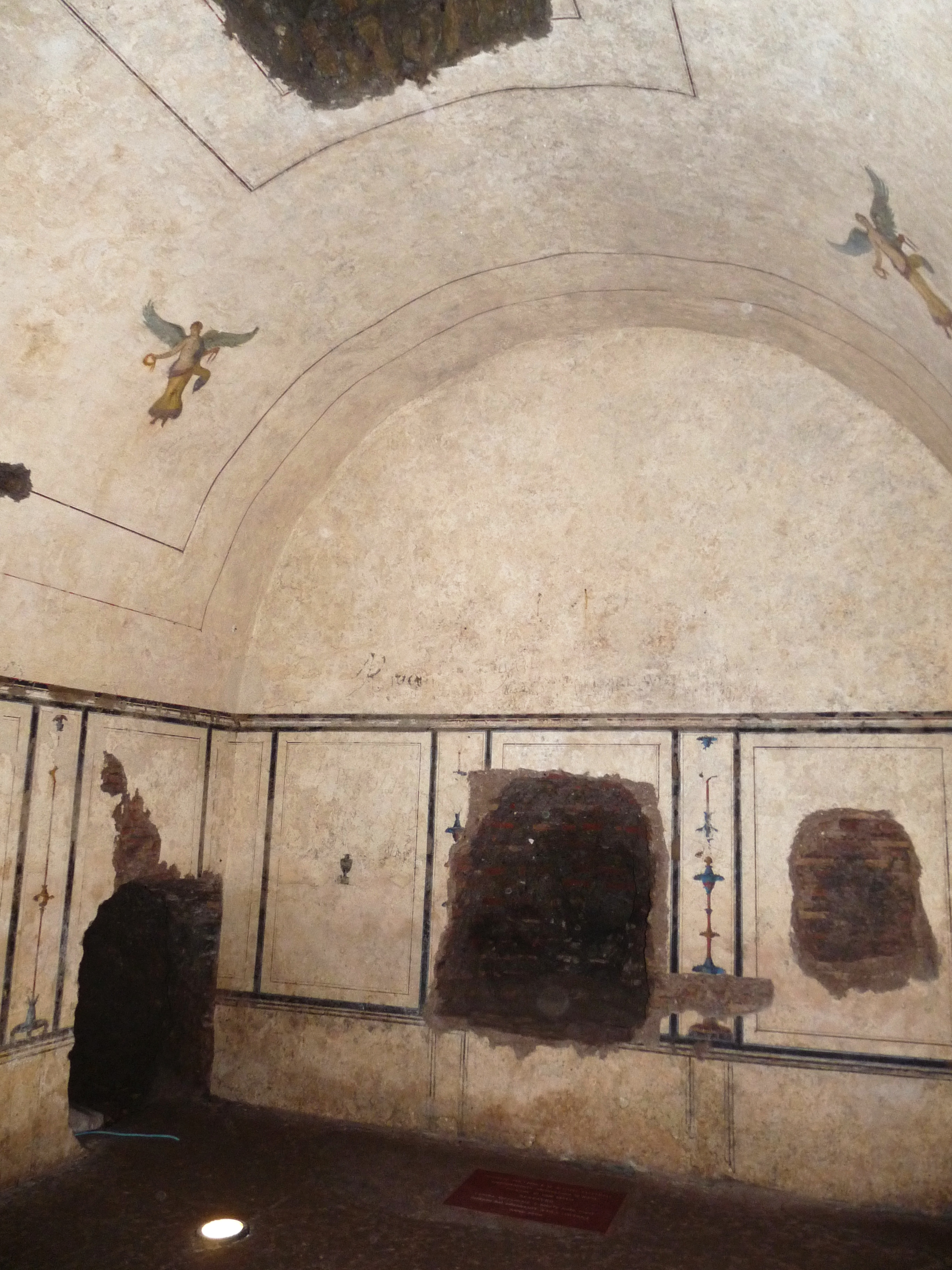 The room inside the Pyramid of Caius Cestius in Rome, Italy